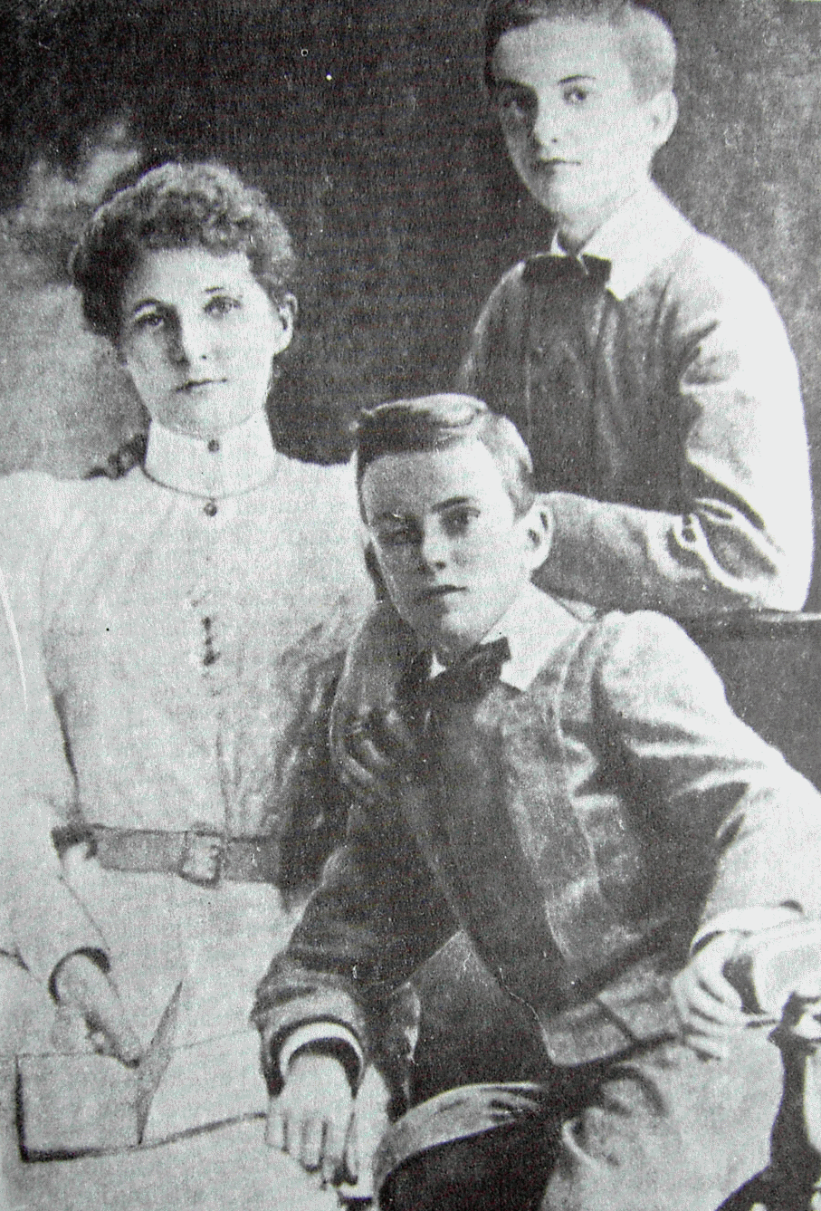 Margaret-Emma Robertson (Myklukha-Maclay) with sons Olexandr and Volodymyr (seated)